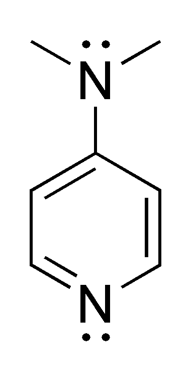 Structural formula of the chemical compound 4-Dimethylaminopyridine (DMAP)